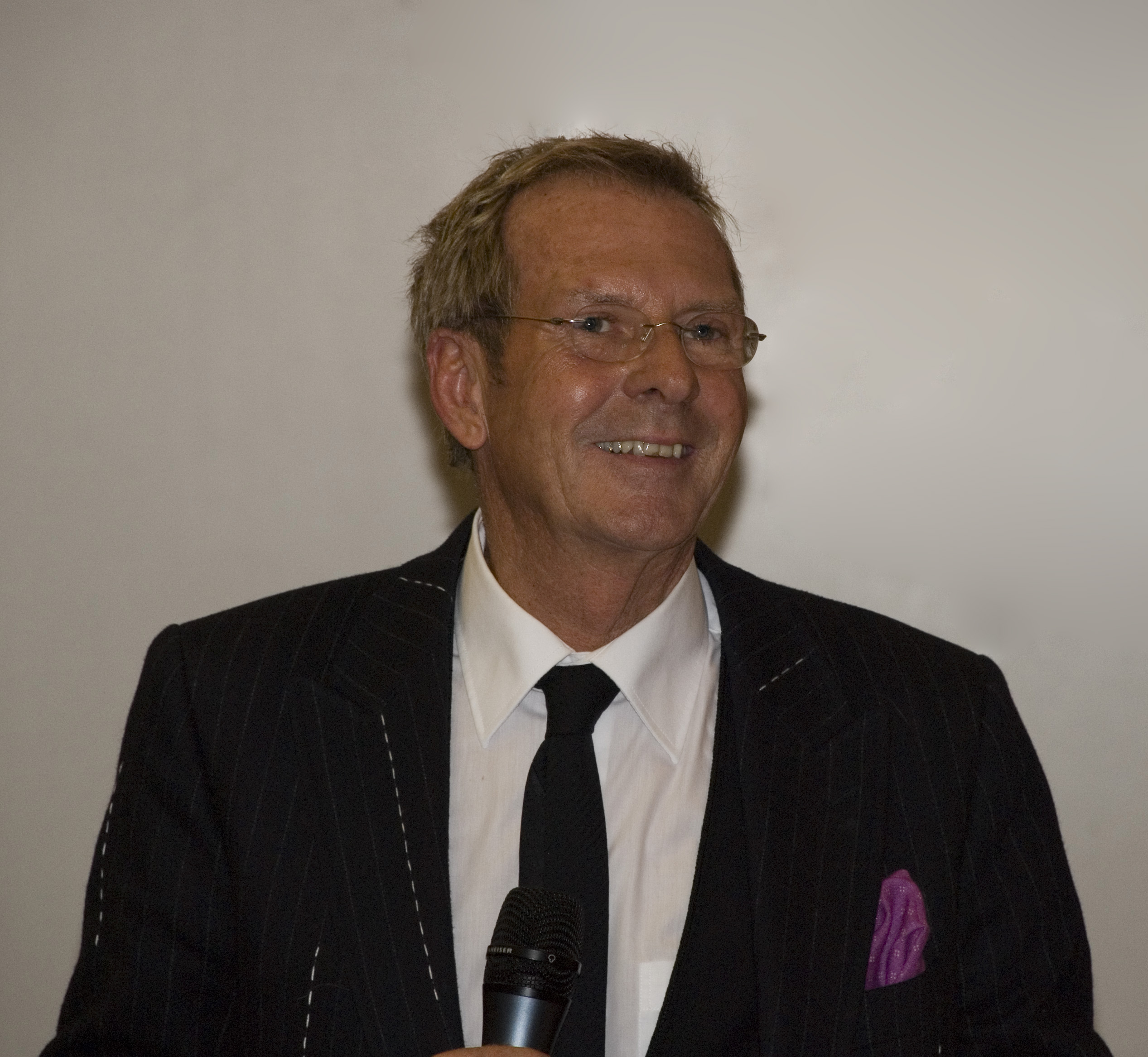 Kurt Aeschbacher - Swiss Talkmaster.